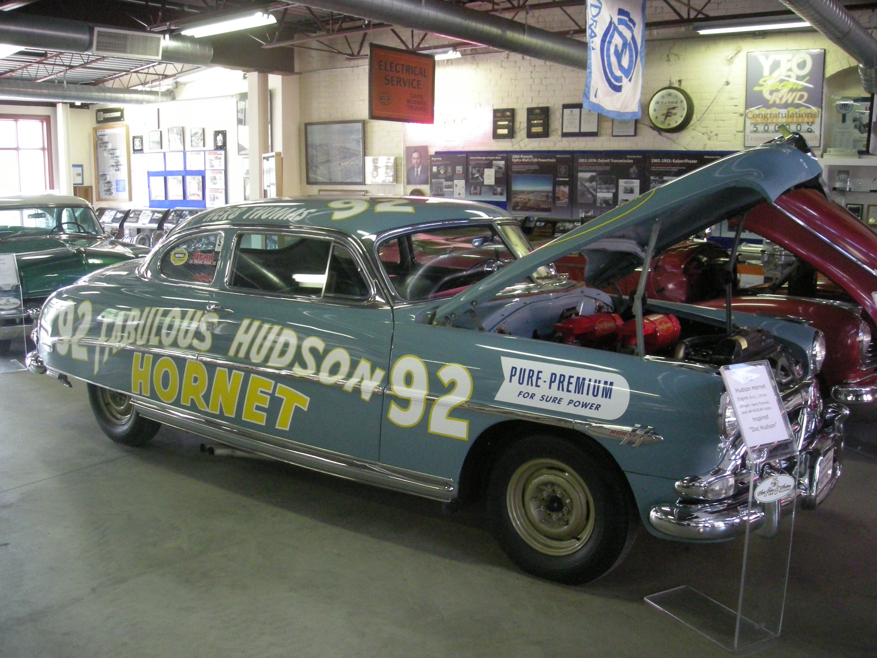 The "Fabulous Hudson Hornet" (a 1952 Hudson Hornet stock car) at the Ypsilanti Automotive Heritage Museum in Ypsilanti, Michigan (United States).